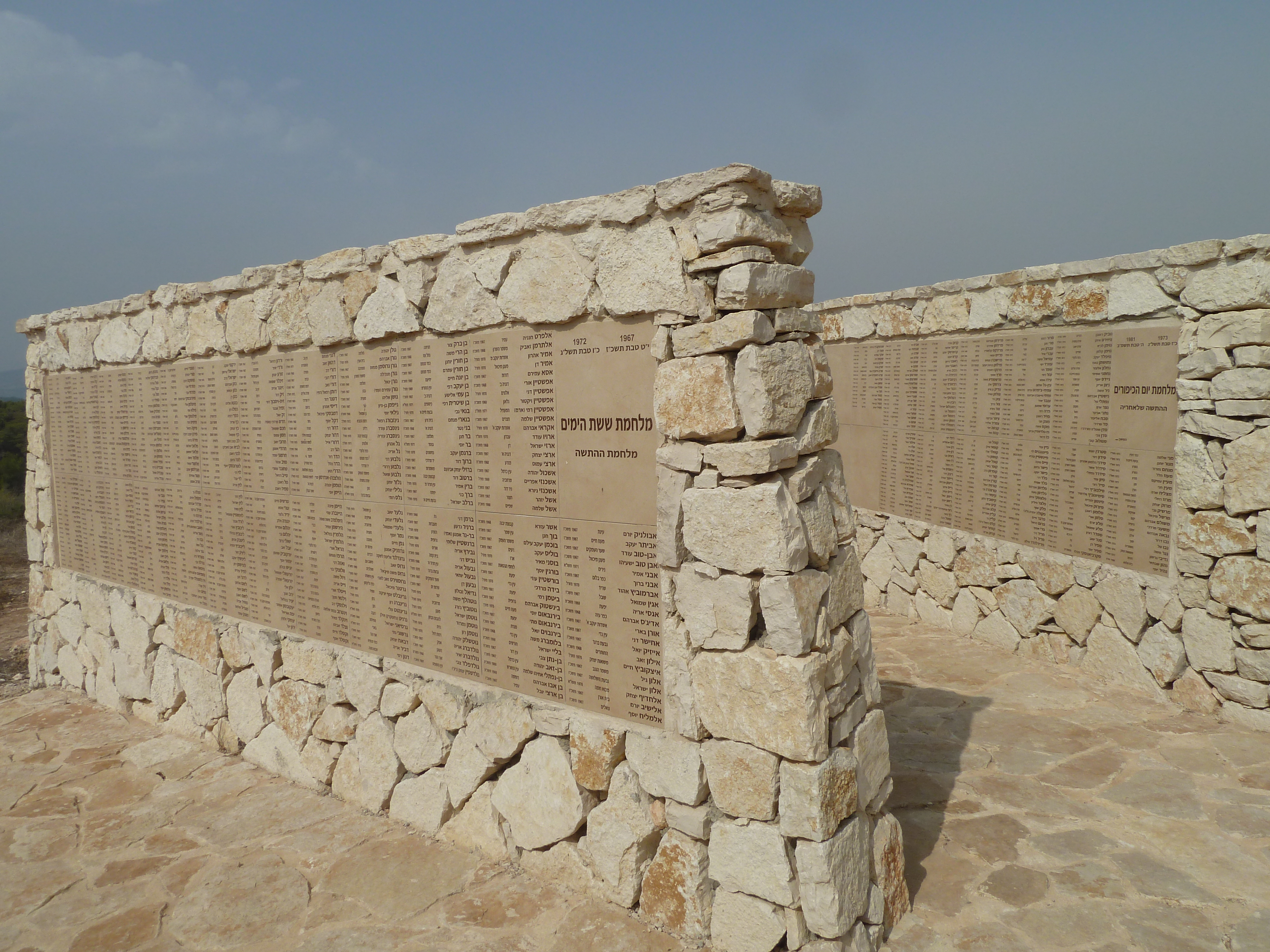 The Kibbutzim Memorial - Memorial to Fallen Kibbutz Members - Mishmer HaEmek Forest, Ramot Menashe (Menashe Hills)